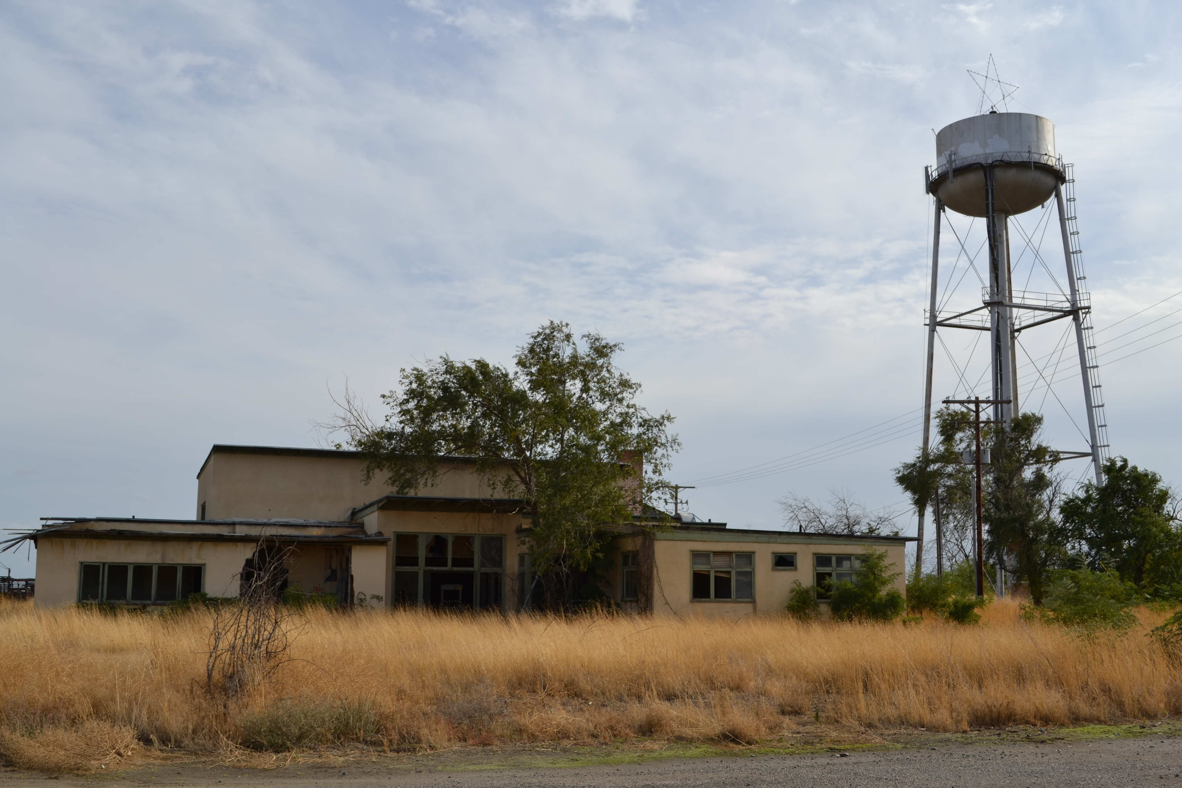 Ordnance, Oregon, general store and water tower.